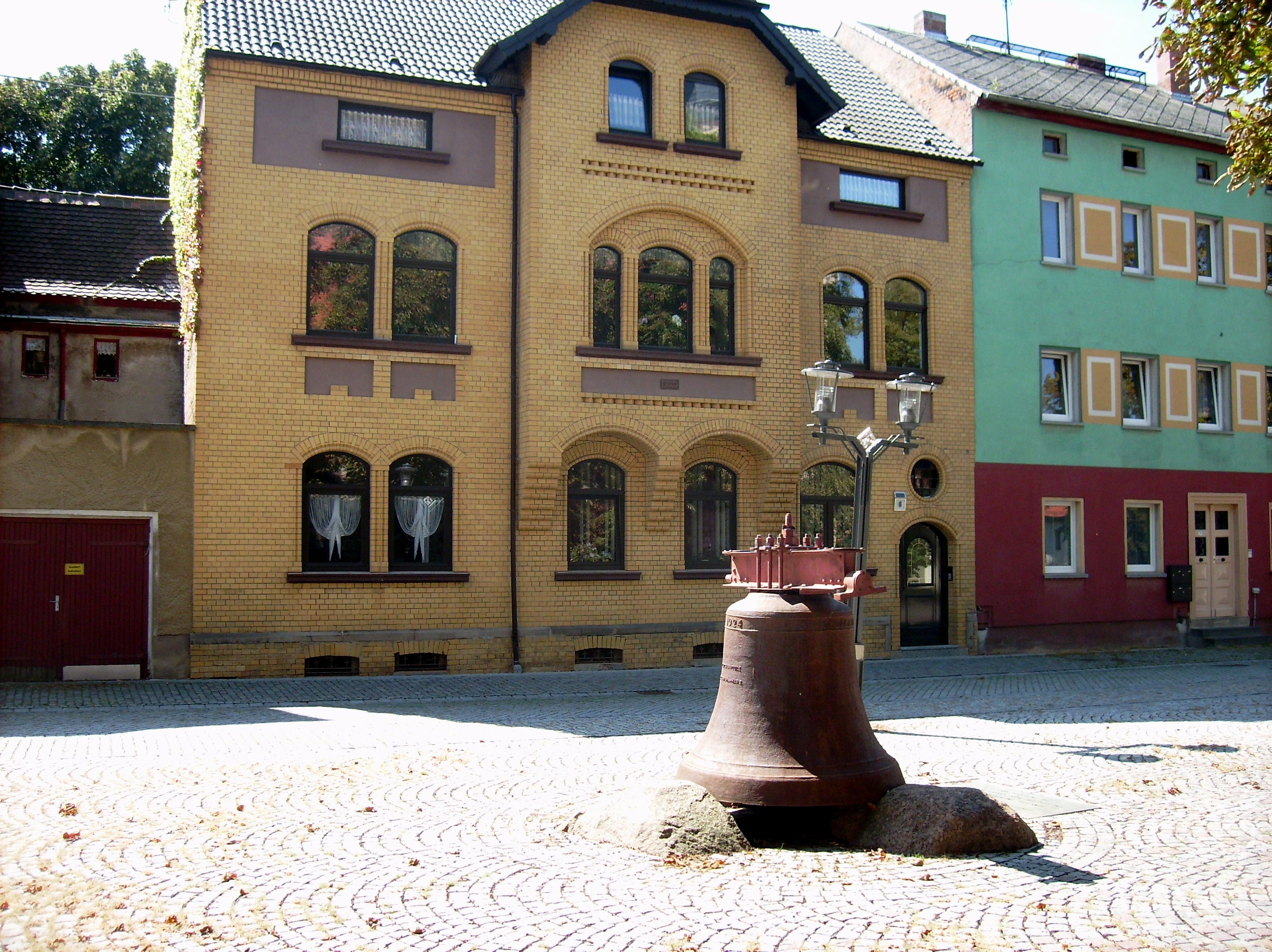 Old market square in Hohenmölsen (district of Burgenlandkreis, Saxony-Anhalt) with a bell of Domsen church as a memorial to that village destroyed by lignite mining